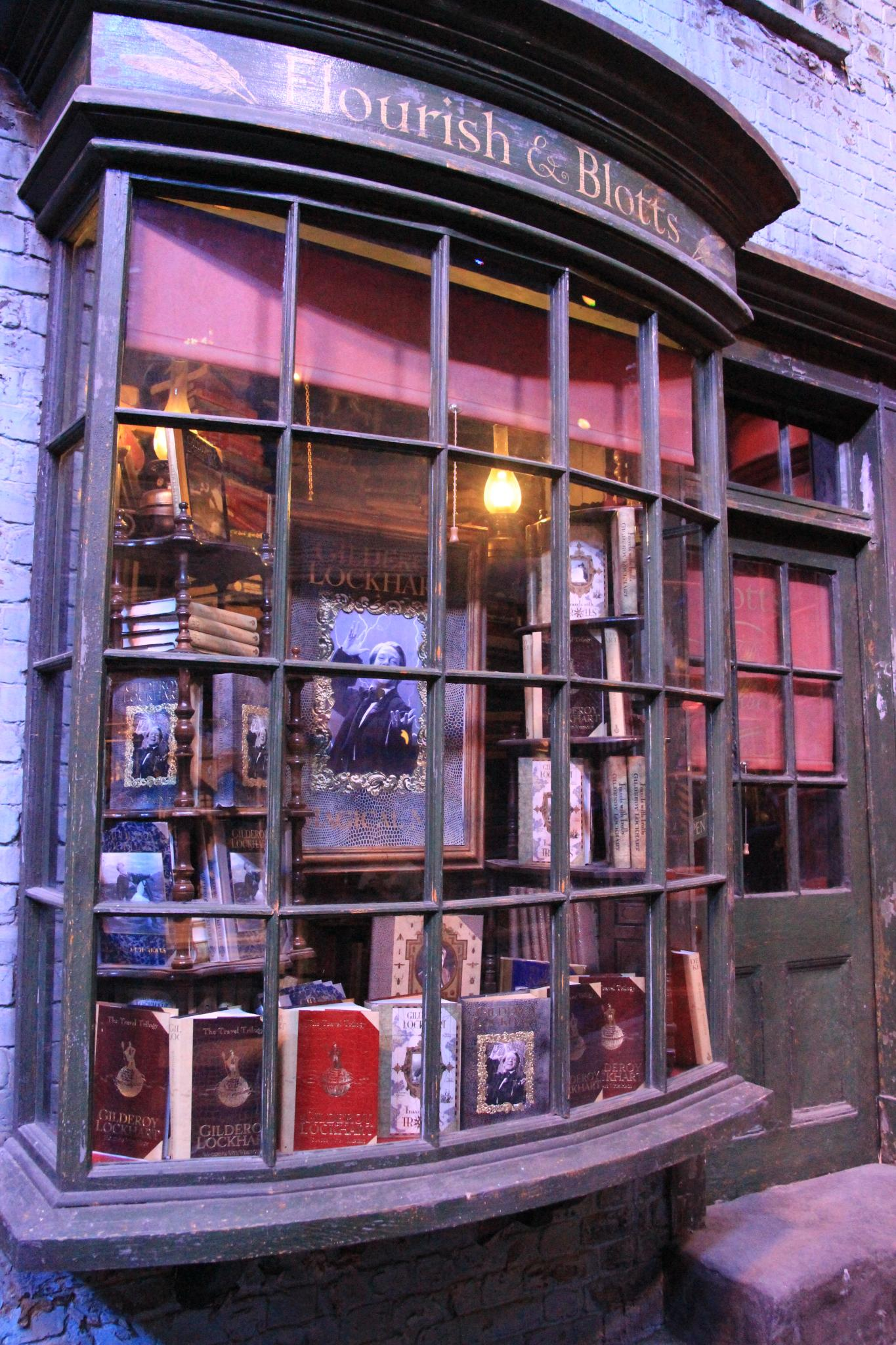 Warner Bros. Studio Tour London: The Making of Harry Potter.